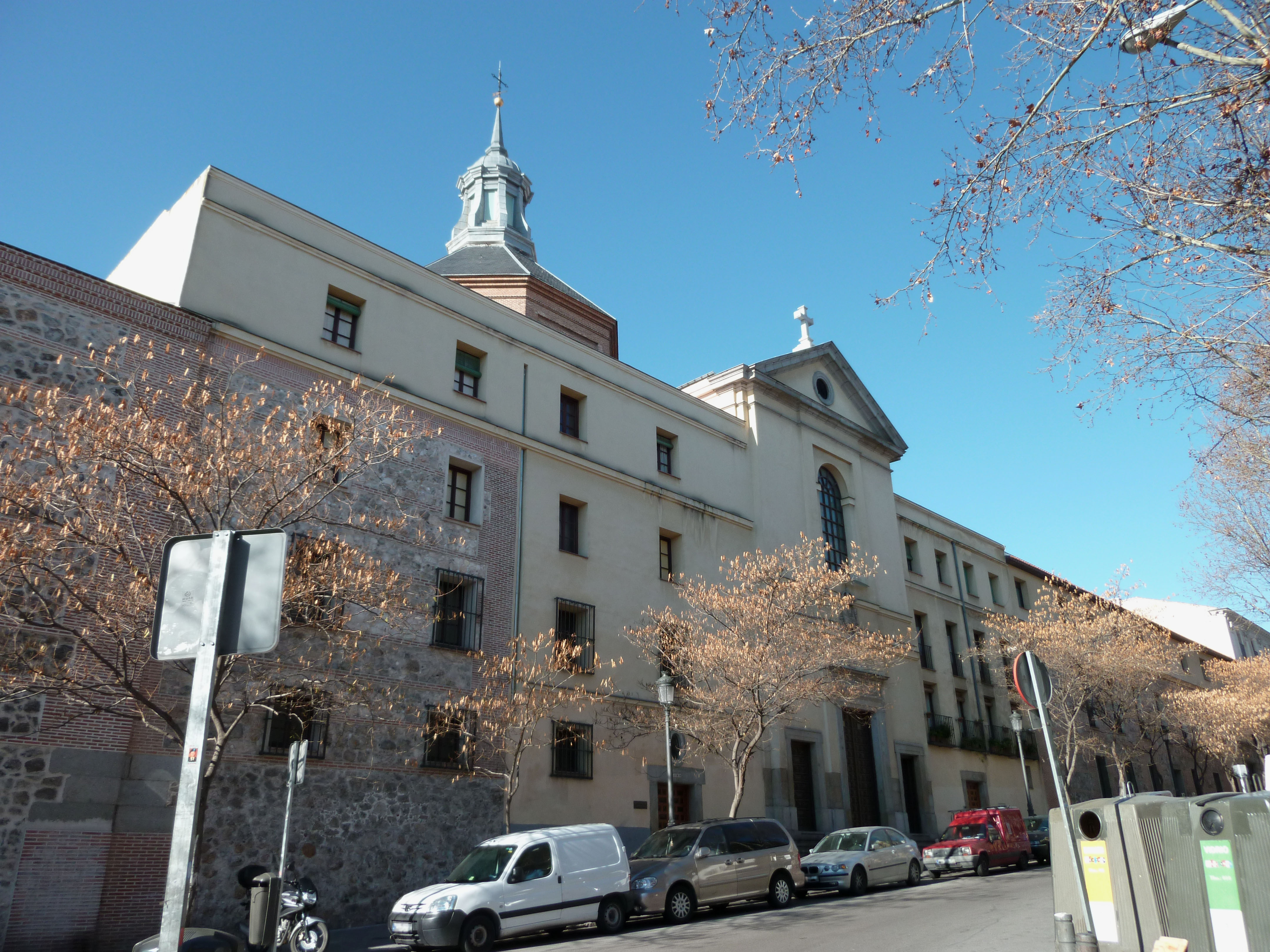 Façade of the church of Real Monasterio de Santa Isabel (a convent), at 46-48 Calle de Santa Isabel (street) in Centro district in Madrid (Spain). Original building was made between 1560 and 1570. Church was projected by Juan Gómez de Mora and built between 1640 and 1665.